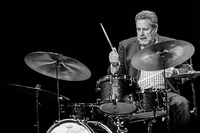 Jeff Hamilton (2018) in Aarhus, Denmark